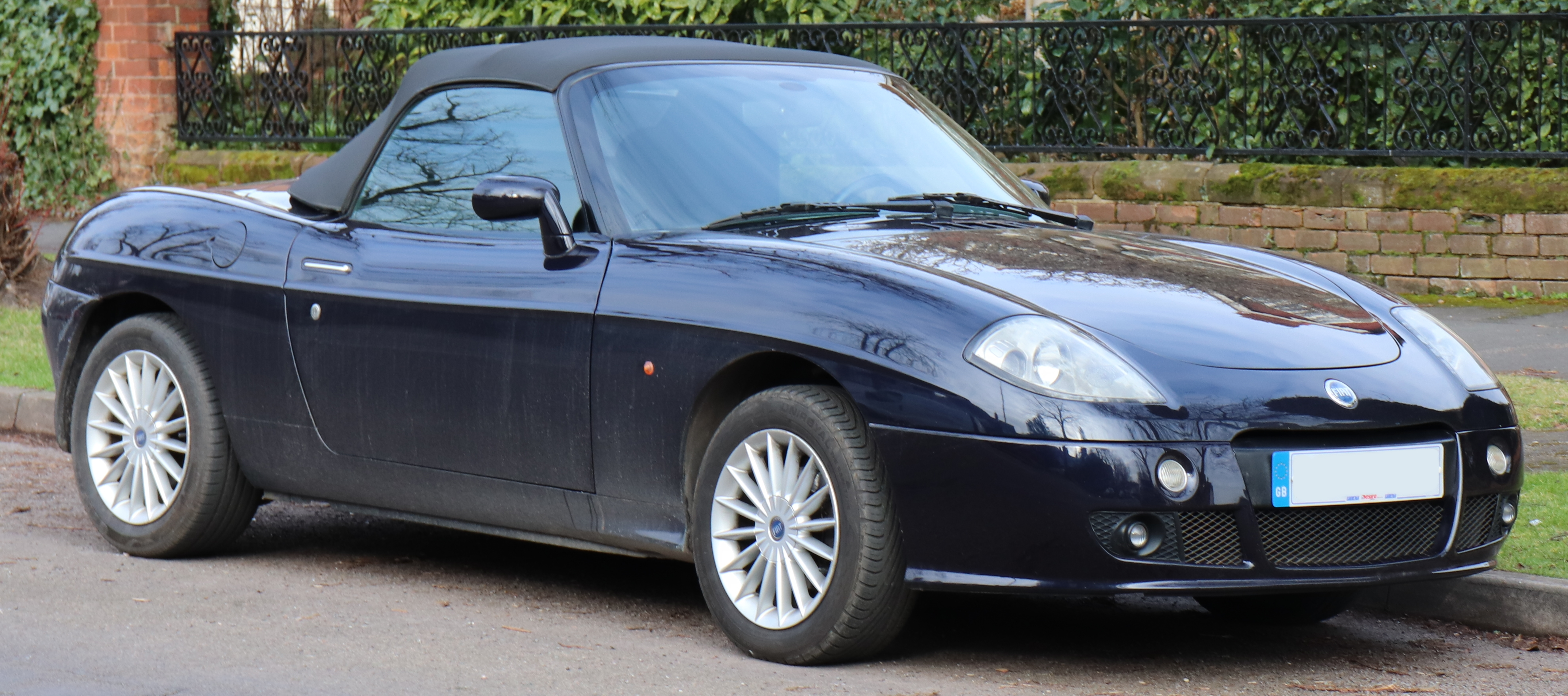 2005 Fiat Barchetta 16V 1.7 Front Taken in Leamington Spa